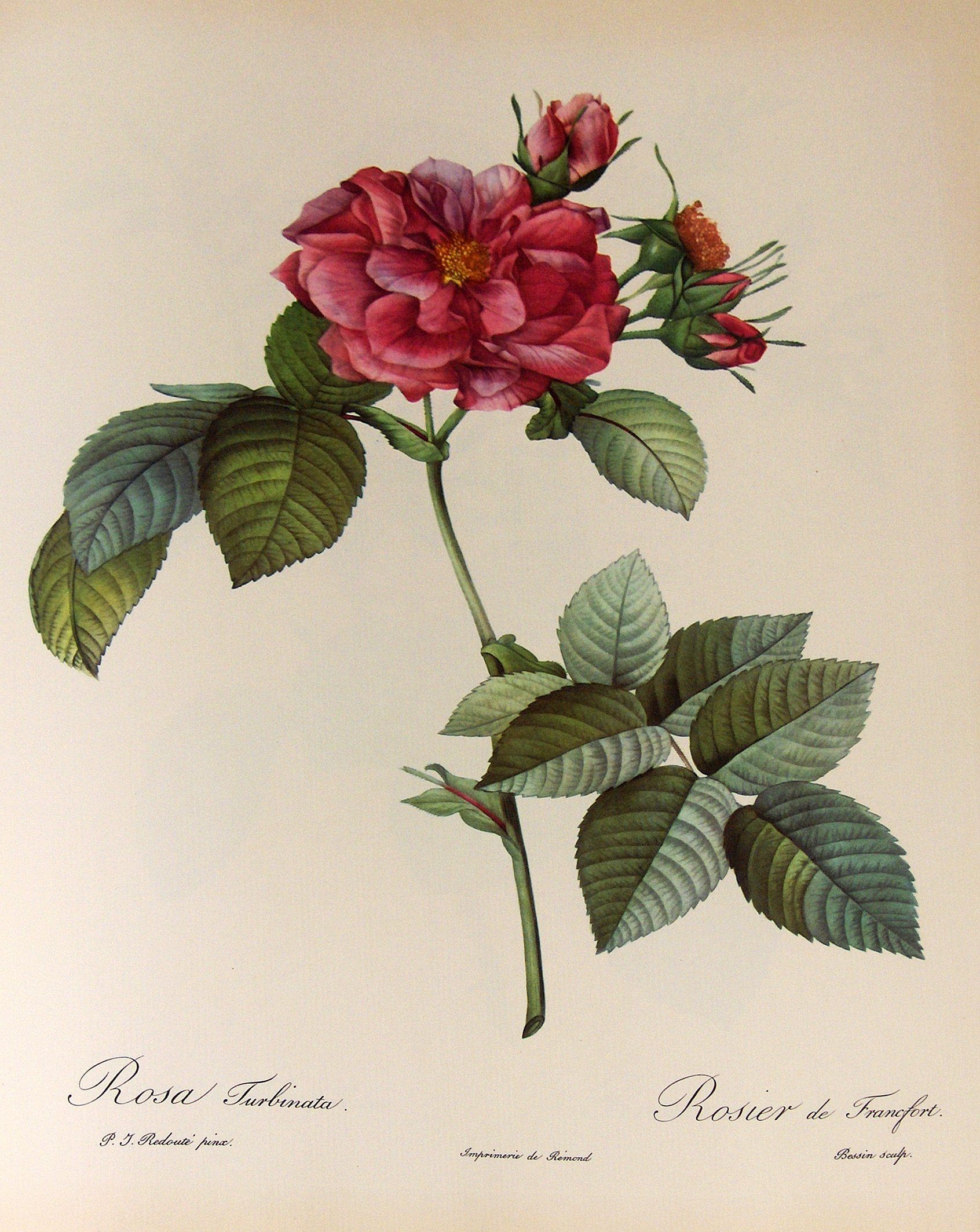 "Rosa turbinata", watercolor by Pierre-Joseph Redouté (1759-1840); private collection